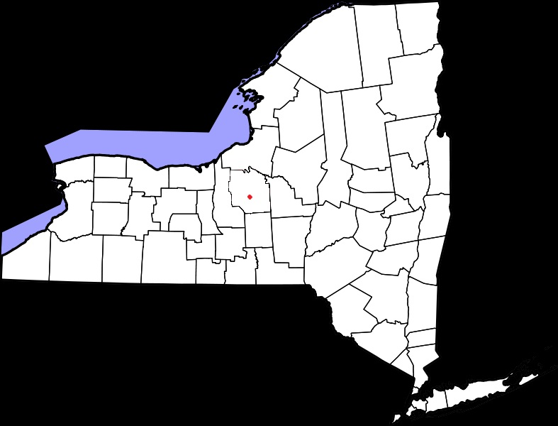 map of the Onondaga's reservation